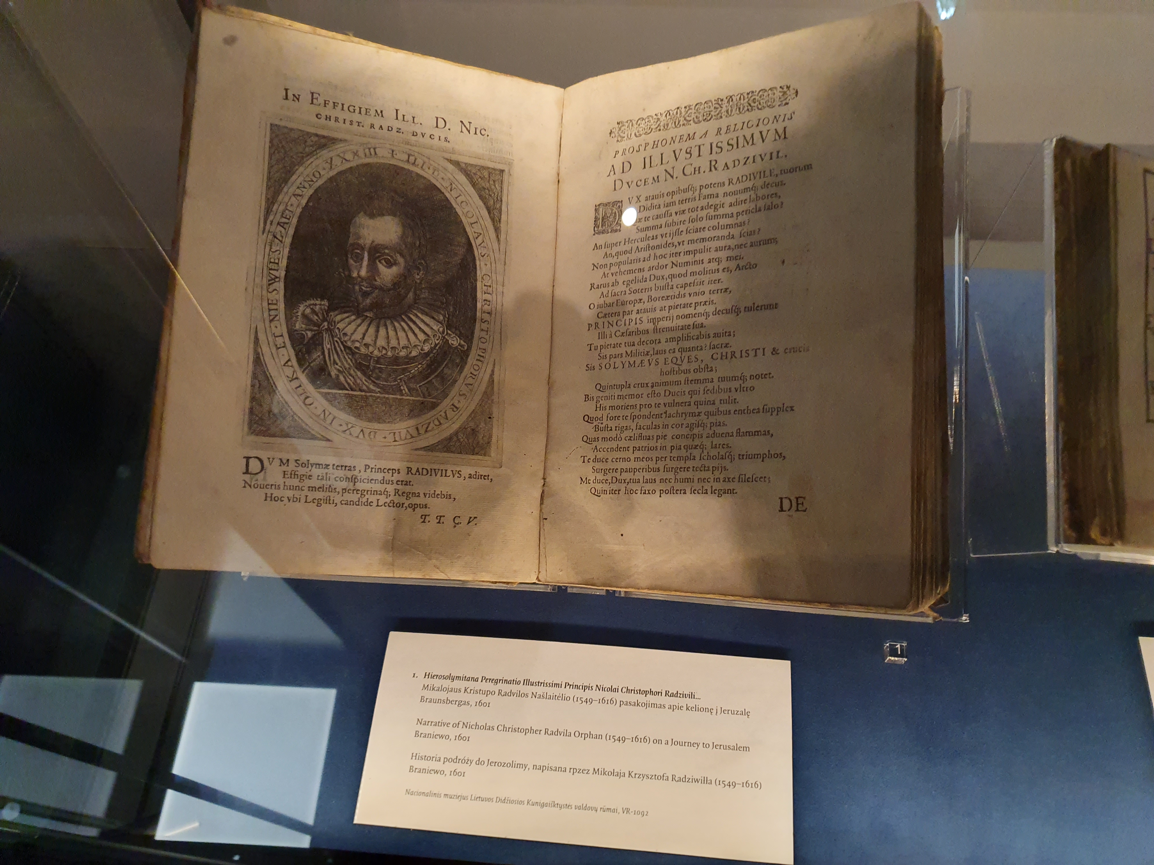 Mikołaj Krzysztof "the Orphan" Radziwiłł book about his trip to Jerusalem. This example of the book was printed in 1601, in Braniewo. It was photographed during an exhibition at the Palace of the Grand Dukes of Lithuania.